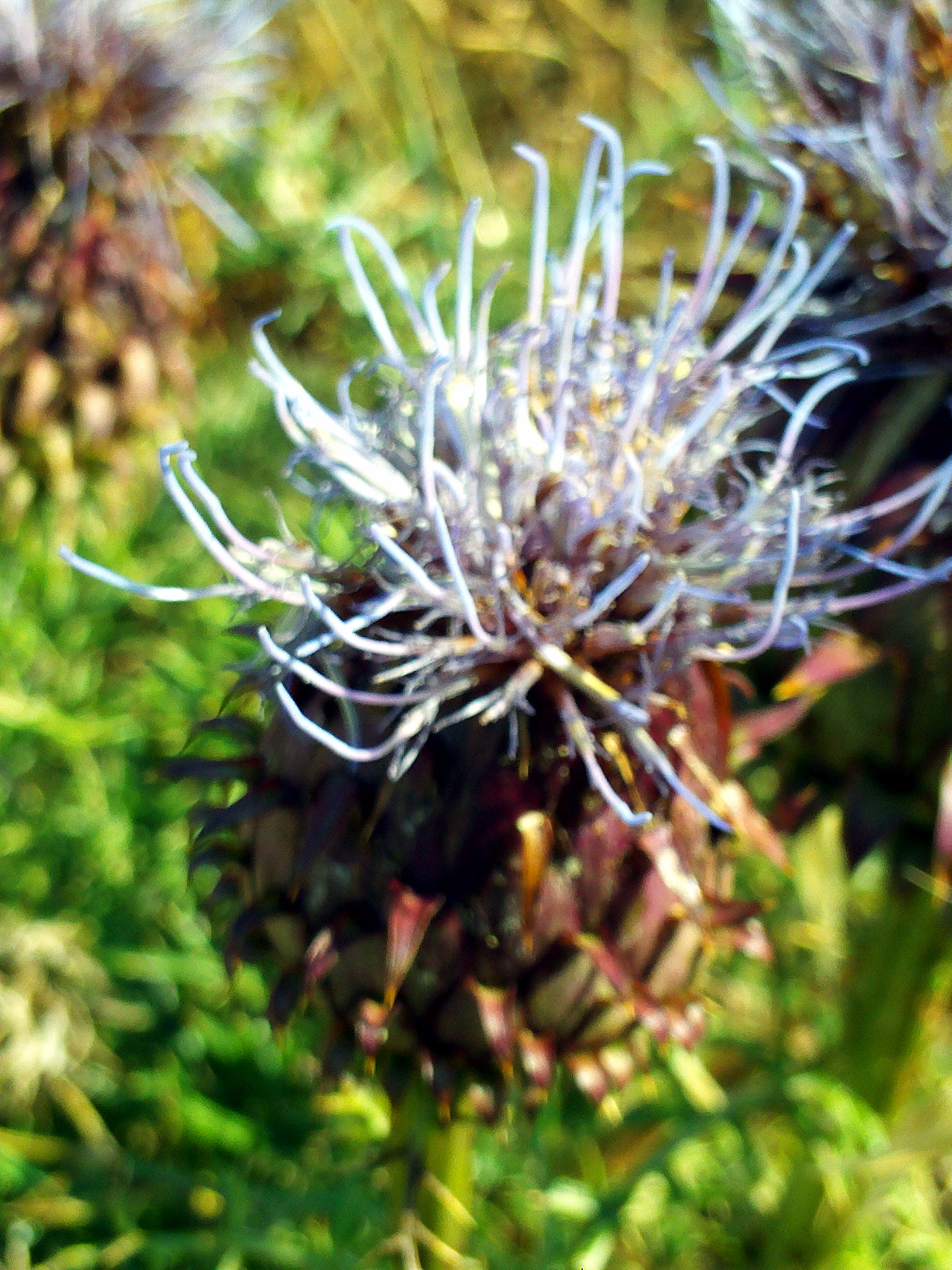 Cynara humilis Inflorescence close up, Puertollano, Valle de Alcudia, Spain